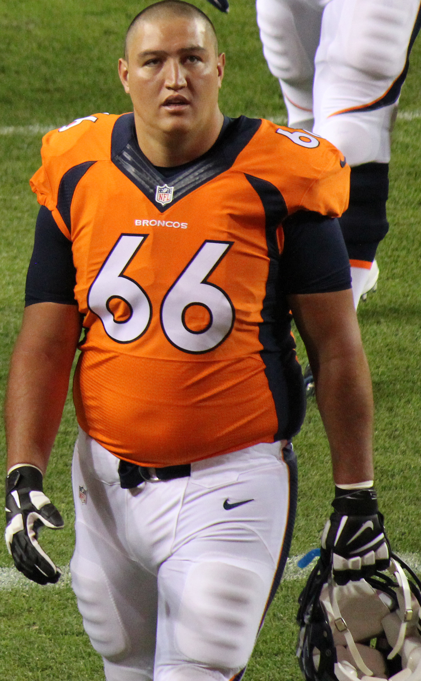 Kyle Roberts, a player on the National Football League.